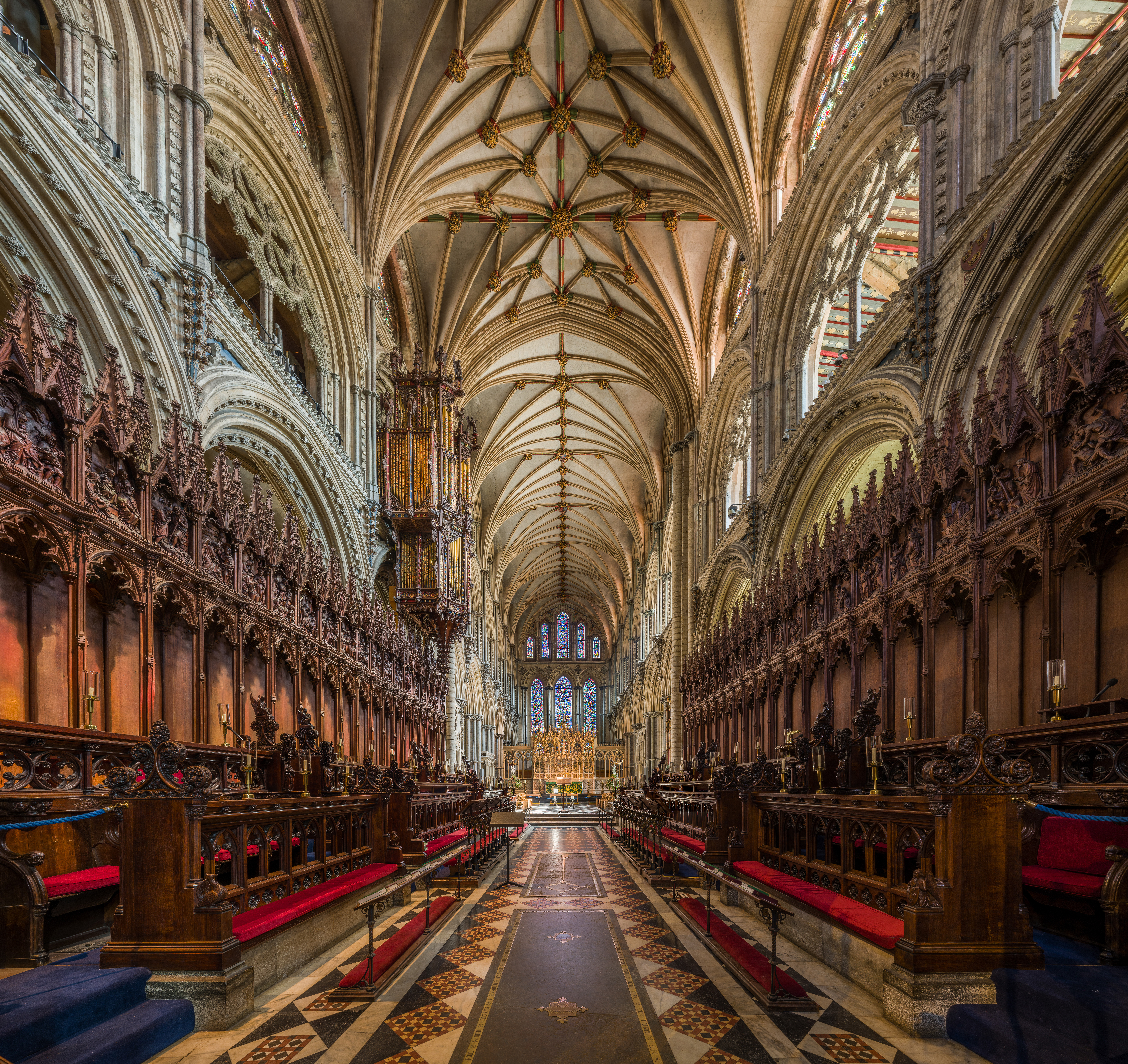 The choir of Ely Cathedral, Cambridgeshire, England.